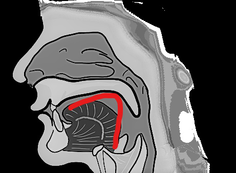 The shape of tongue when ㄱ is pronounced